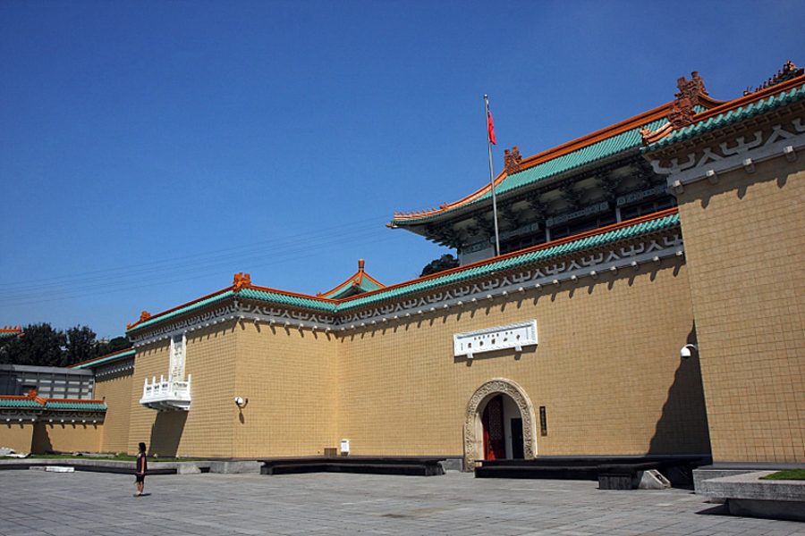 Main Hall of the National Palace Museum in Taipei, Taiwan